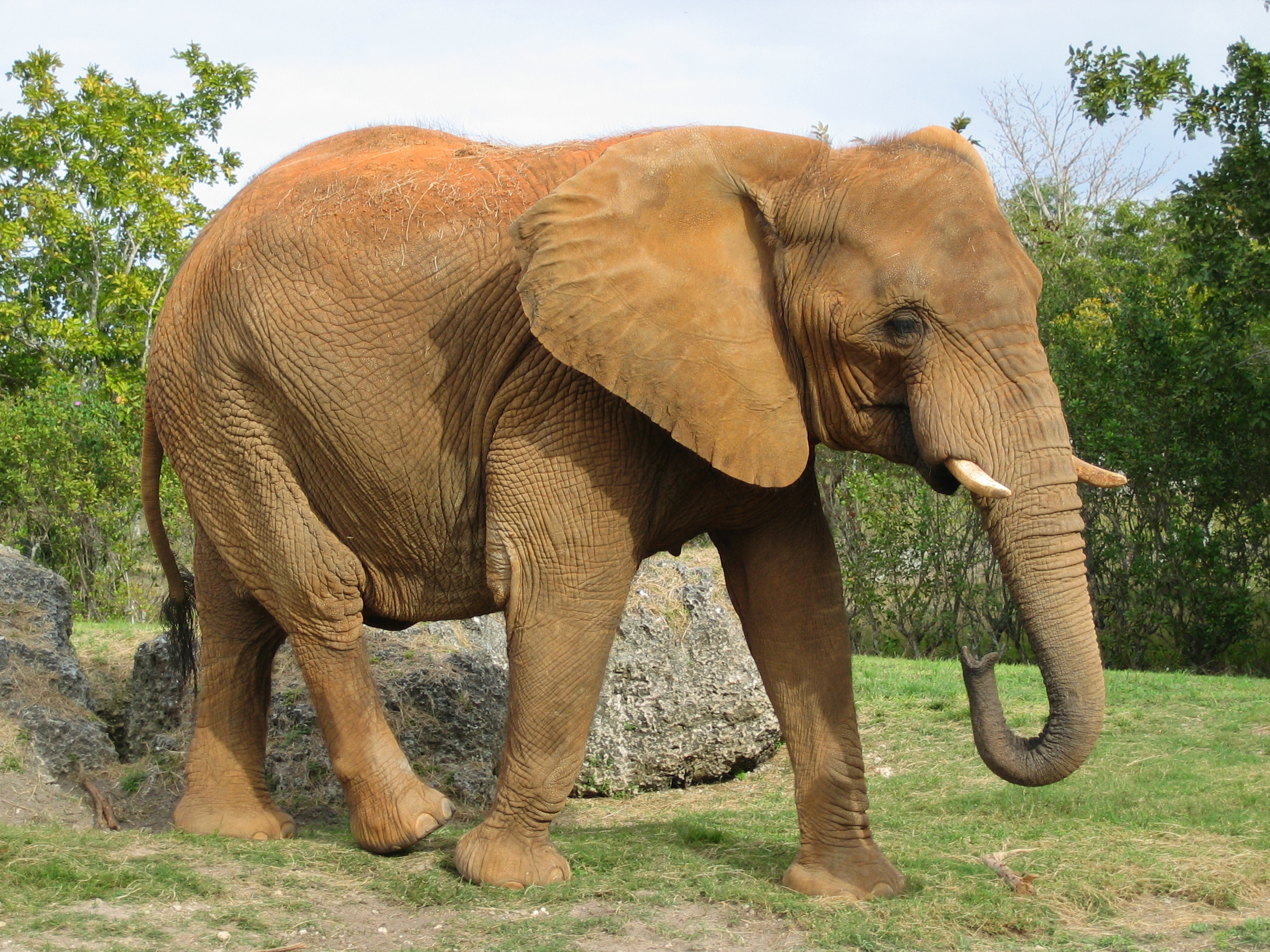 African elephant, Miami Zoo.